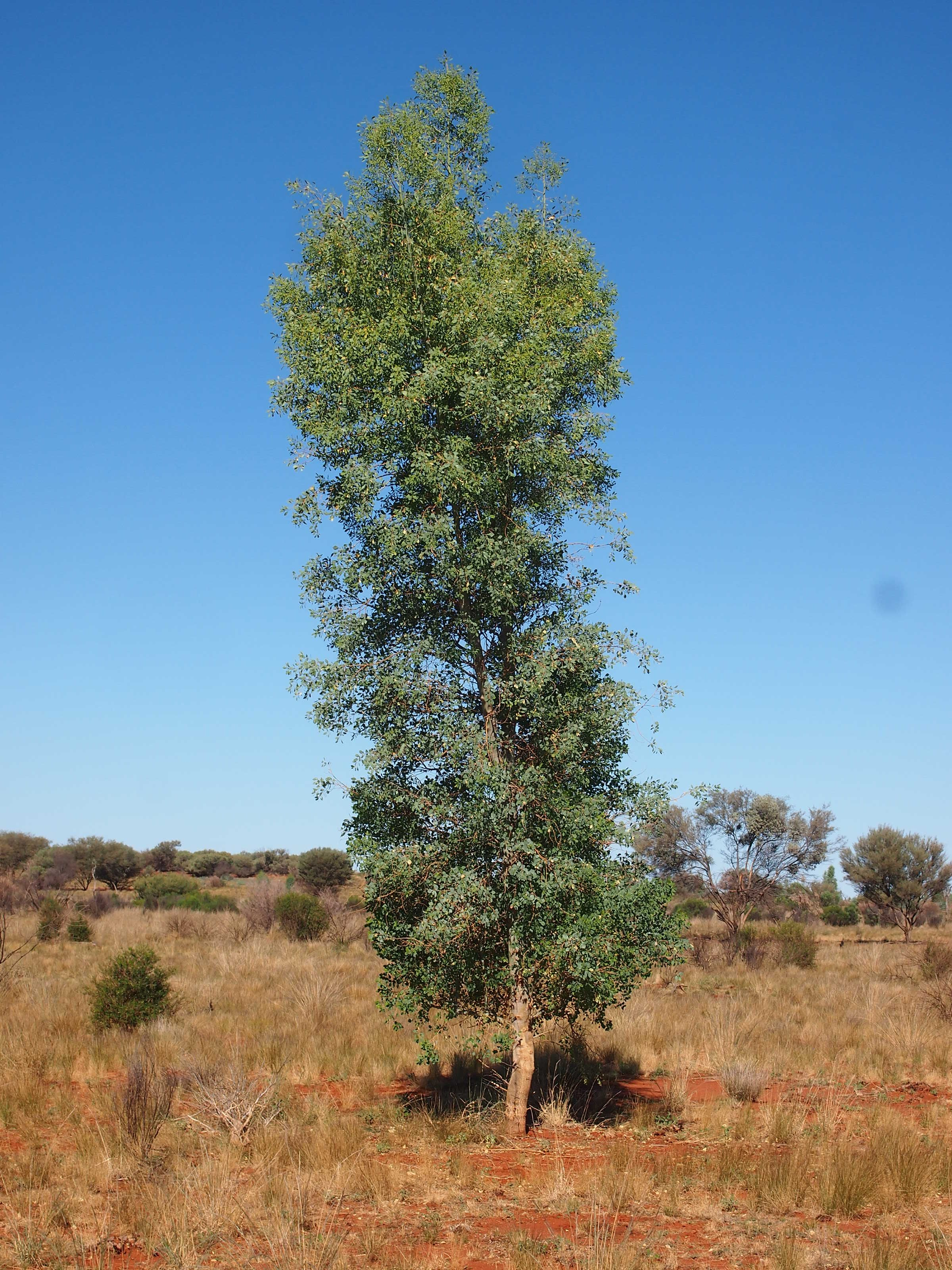 Codonocarpus cotinifolius habit